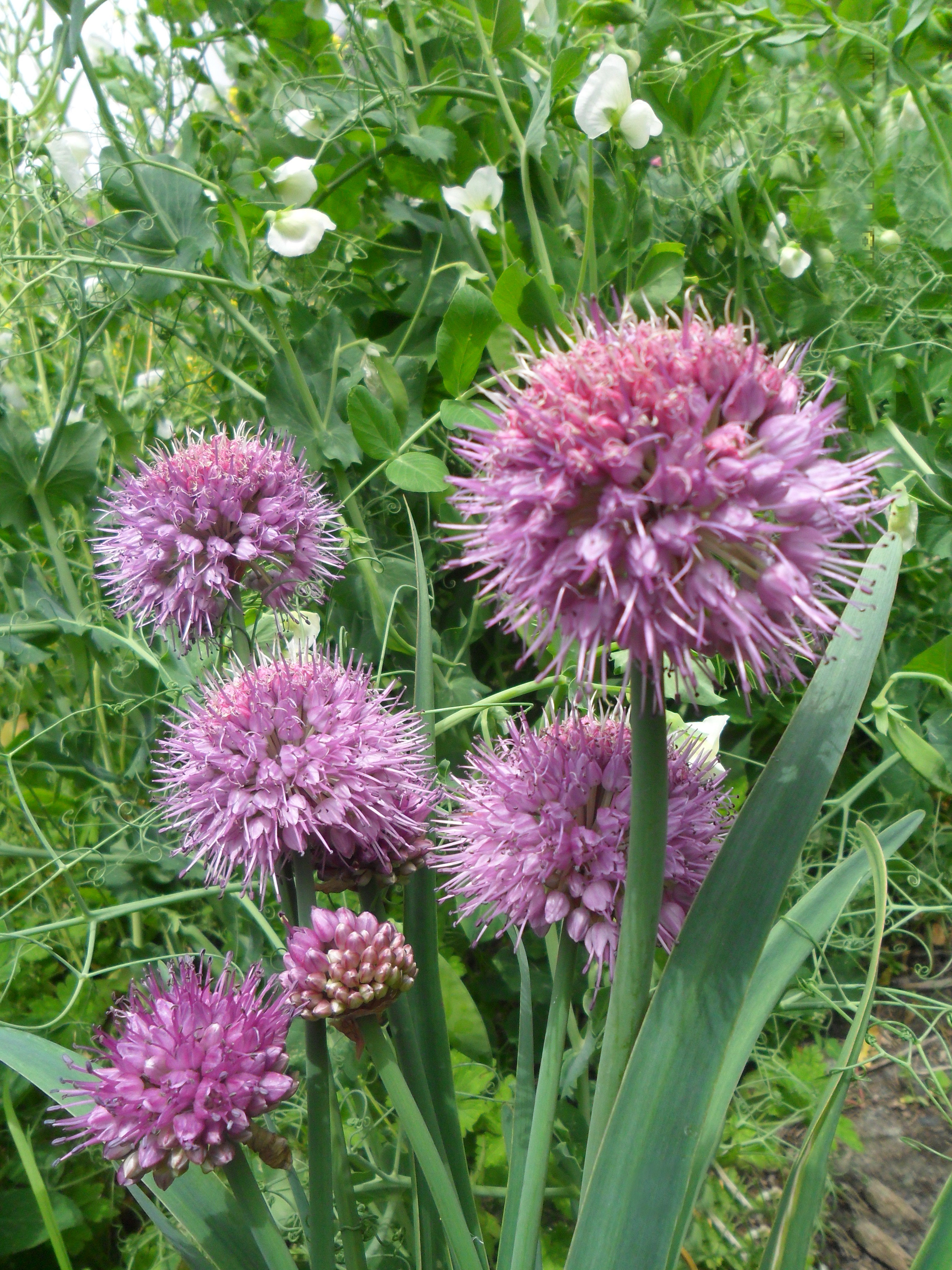 use as a spice to delicious for meal